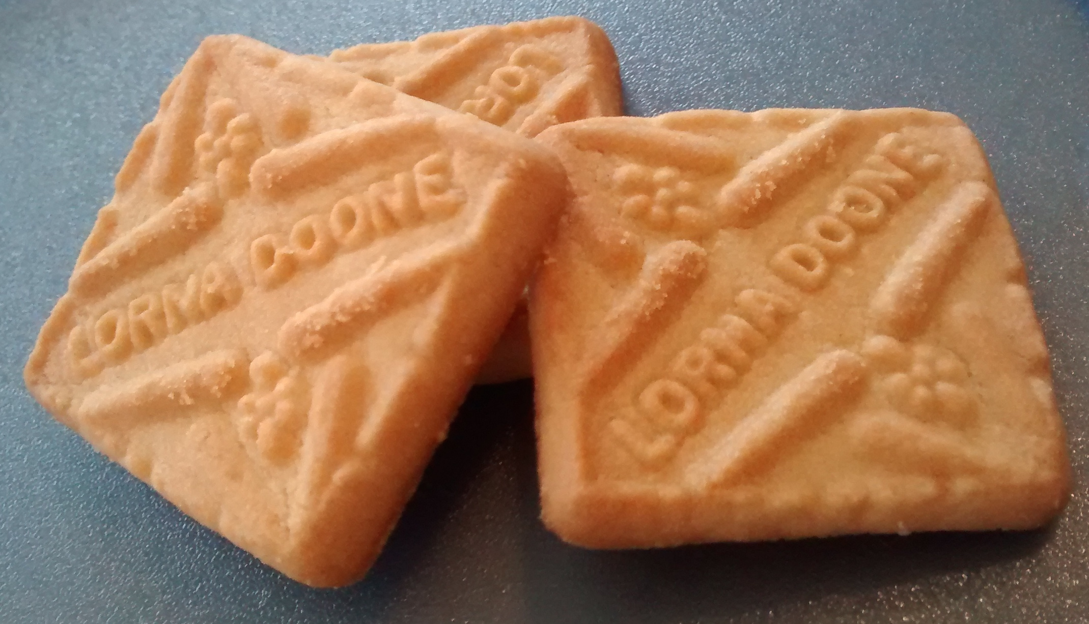 Three Lorna Doone cookies.